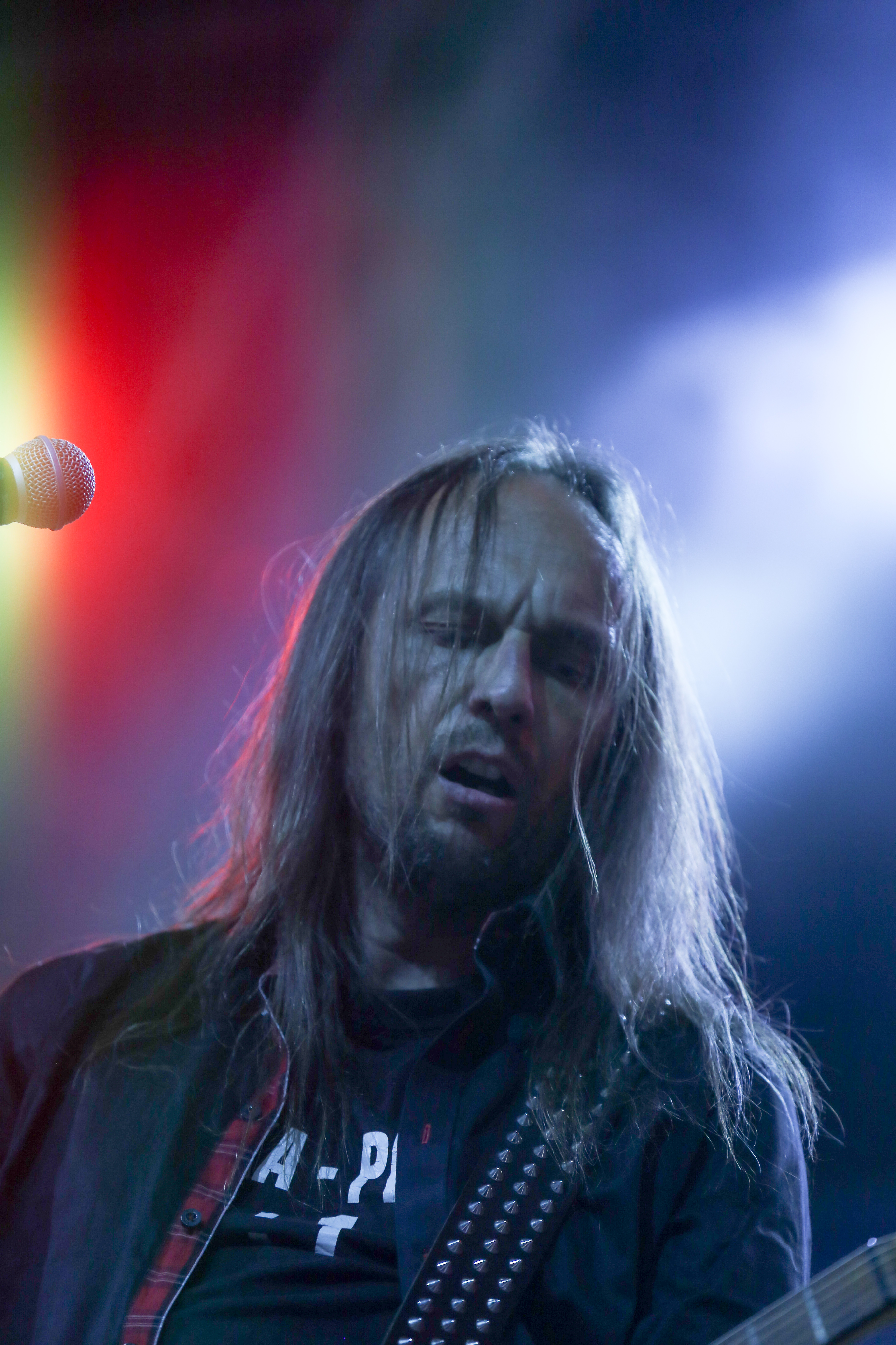 Przystanek Woodstock in 2016.